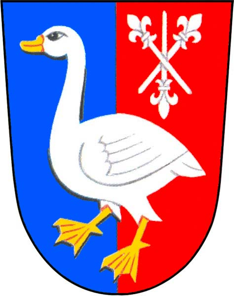 Municipal coat of arms of Dražůvky village, Hodonín District, Czech Republic.